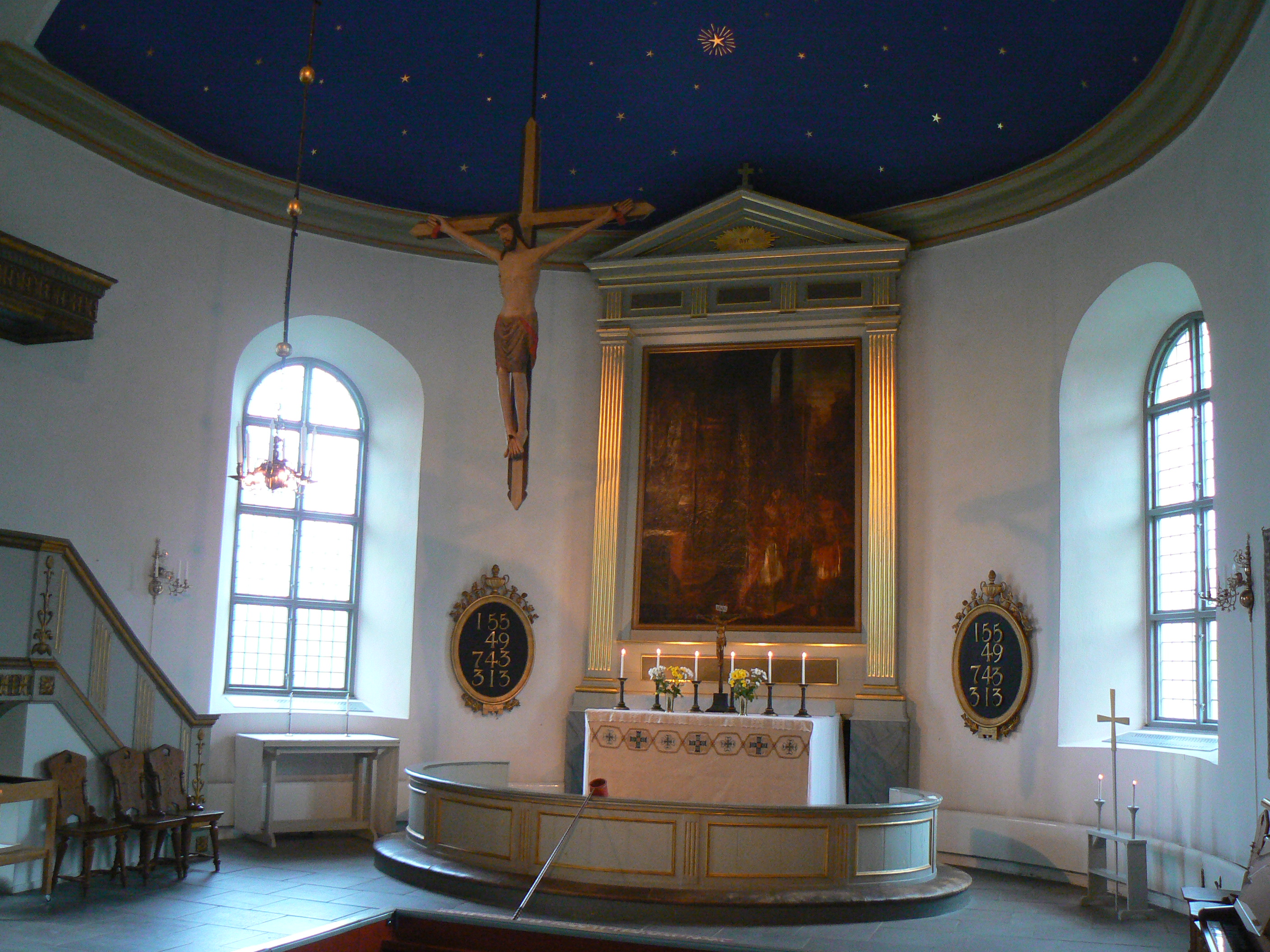 Interior (choir) of Västerlösa Church west of Linköping, Sweden.